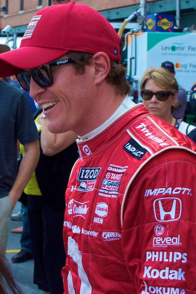 Scott Dixon, the driver of the #9 Target car, is always a contender. The Australian is in 3rd place, within 77 points of 1st. Scott is one of the most popular drivers on the circuit, and finished 5th in the 2011 Baltimore Grand Prix.